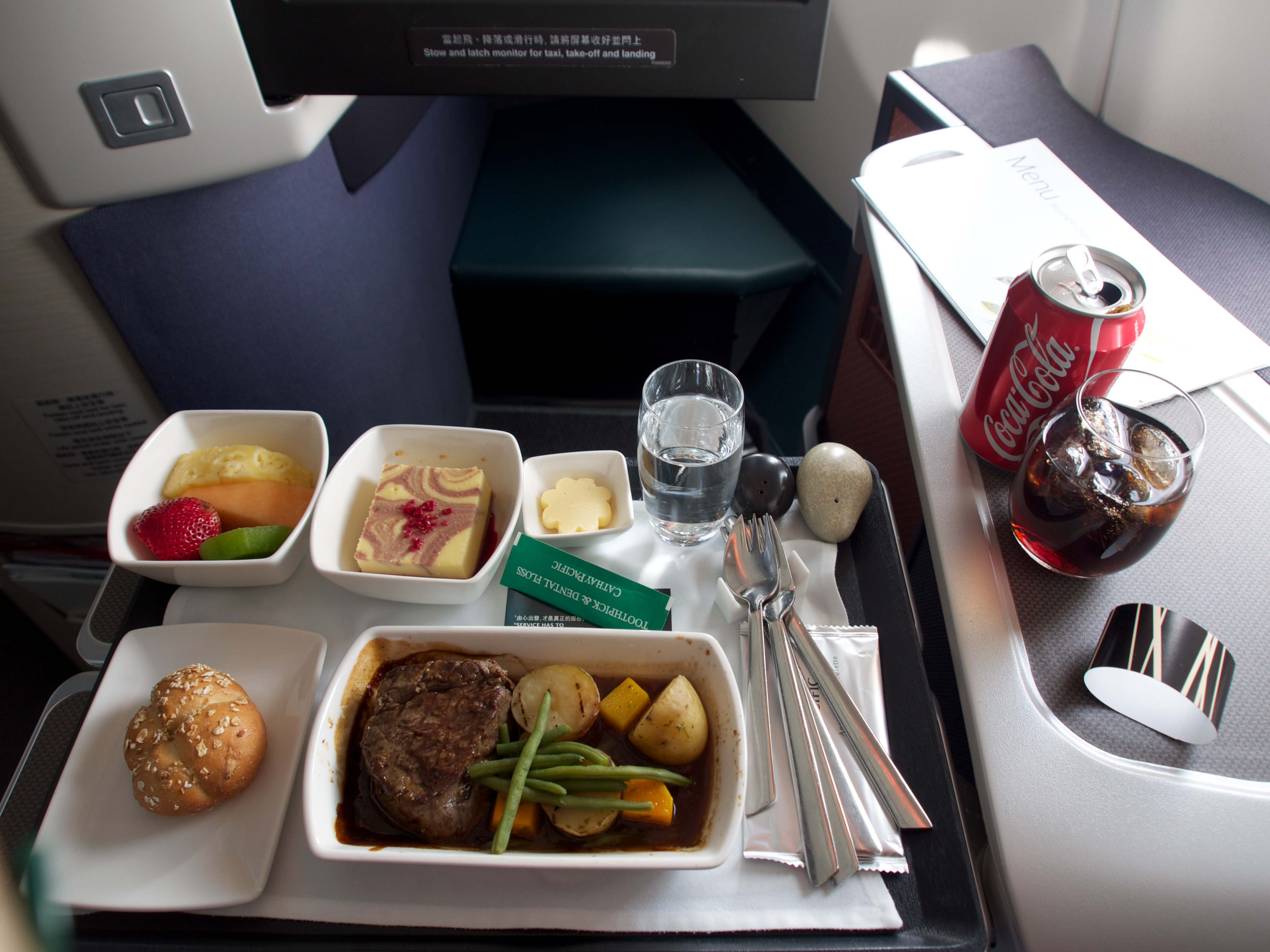 CX 494 | Business Class | Cathay Pacific